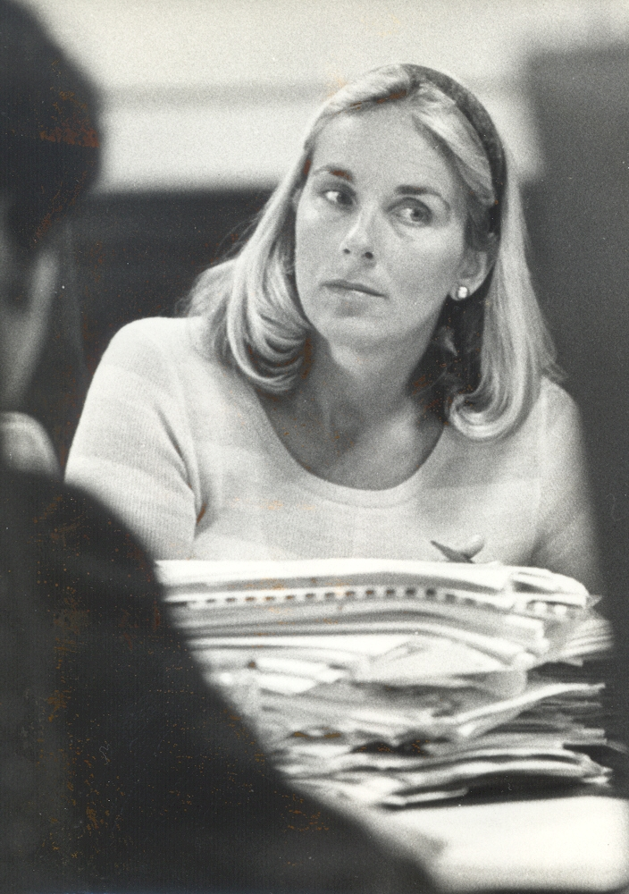 Dudley during meeting on NH Governor's Council